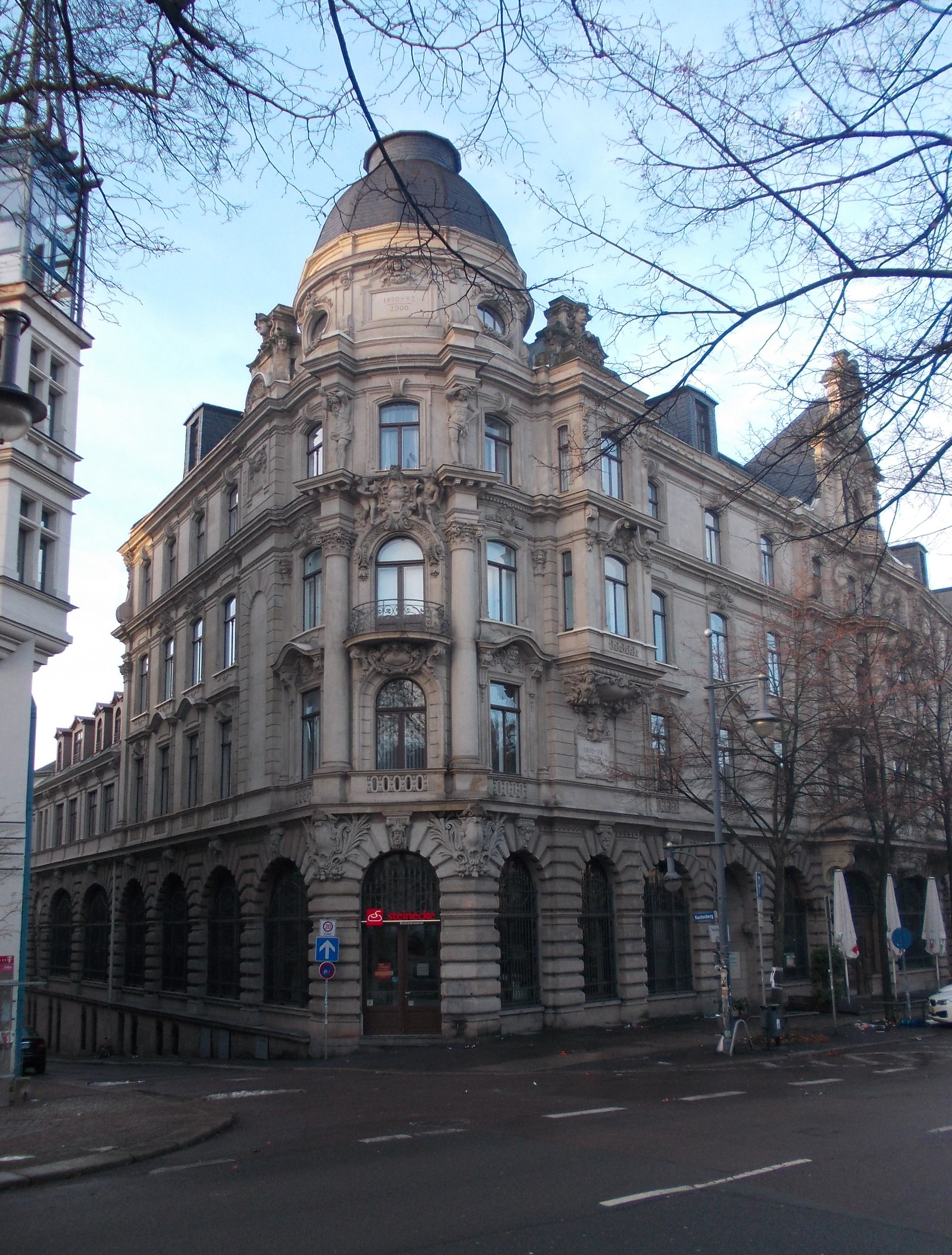 No. 6, Universitätsring in Halle/Saale (Saxony-Anhalt), former headquarters of the Prussian Life Assurance Ltd.